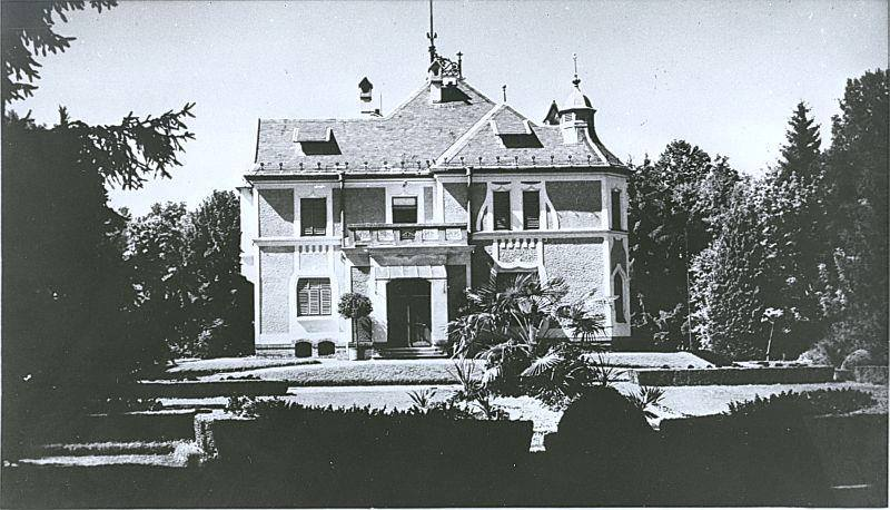 An old photograph (1910) of the Neuschloss villa, Đurđenovac, former Austria-Hungary, today Croatia.